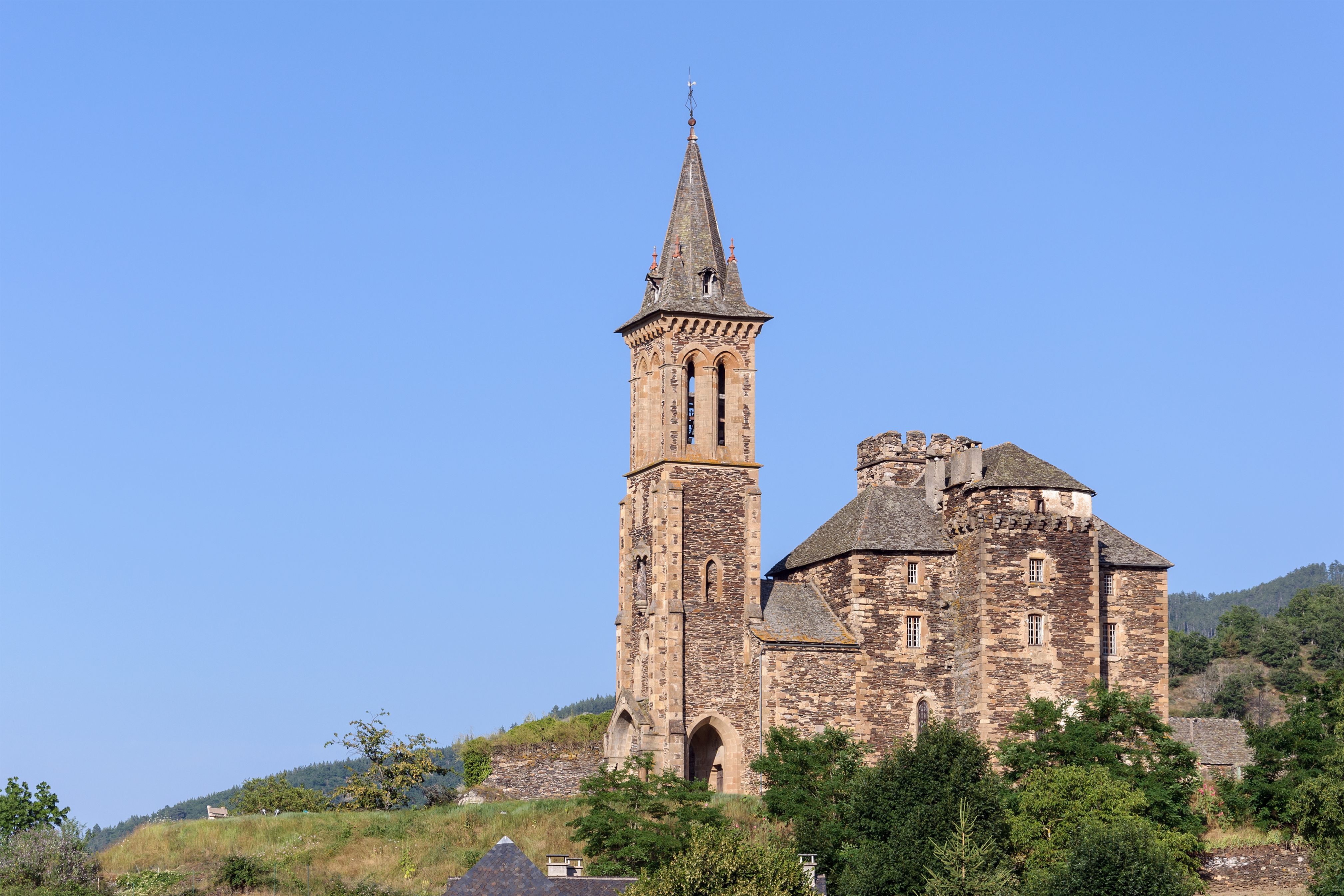 Our Lady of the Assumption church in Bédouès, Lozère, France